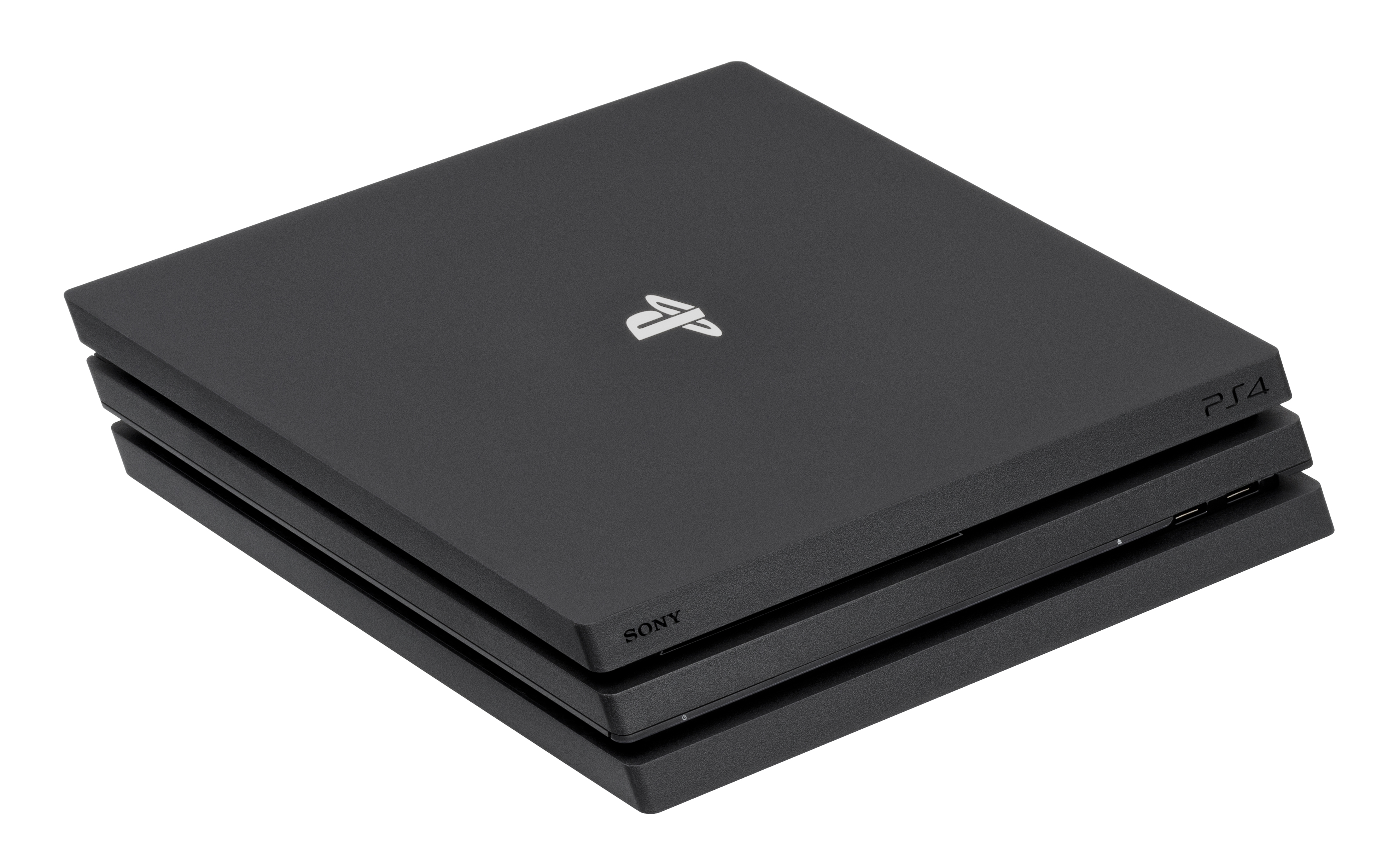 The PlayStation 4 Pro video game console. Produced by Sony and launched worldwide in November 2016, the Pro is an enhanced model of the original PlayStation 4 that offers extra capabilities through an upgraded GPU, faster RAM and a CPU with a higher clock speed.